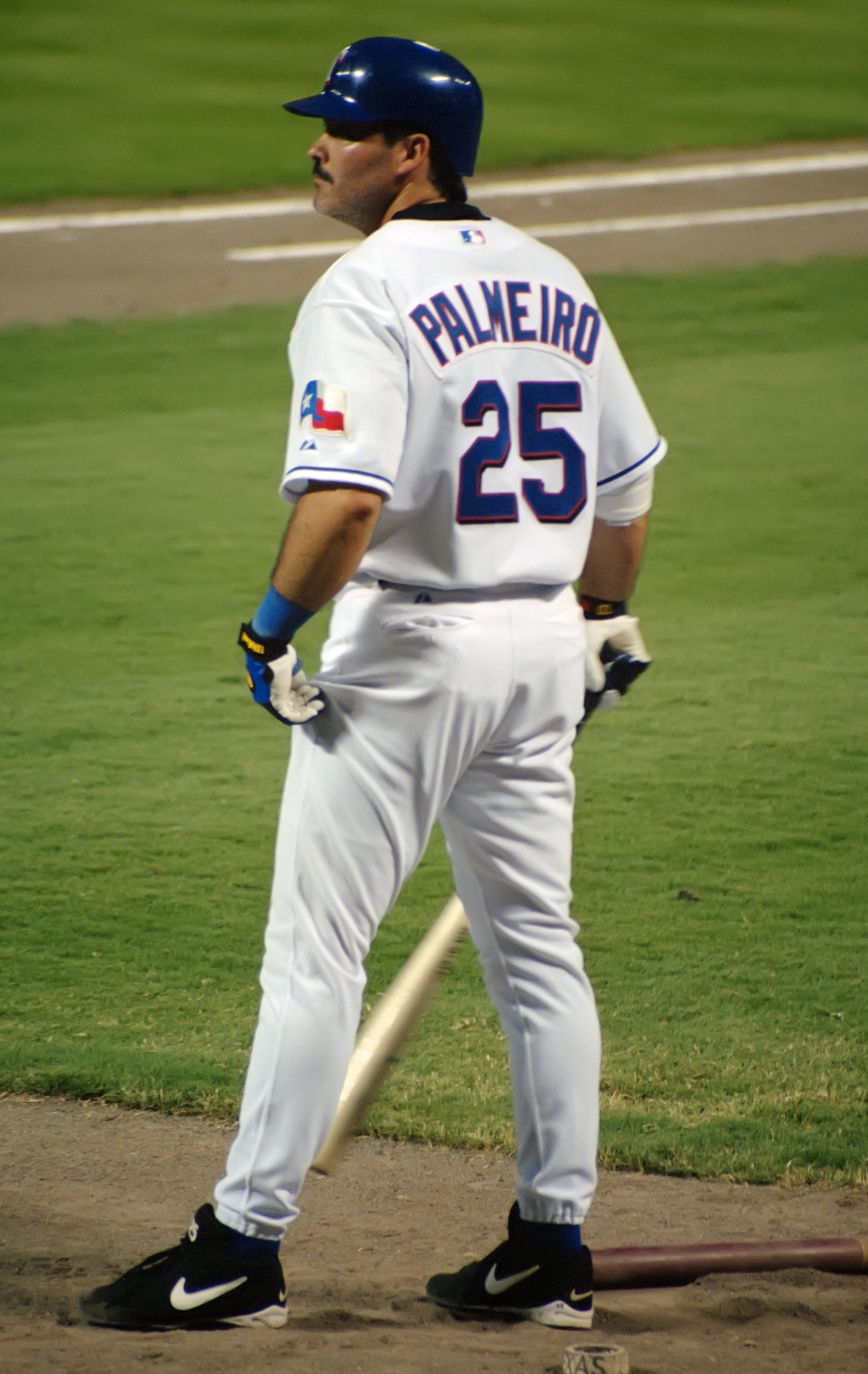 Rafael Palmeiro On Deck (Red Sox at Rangers)